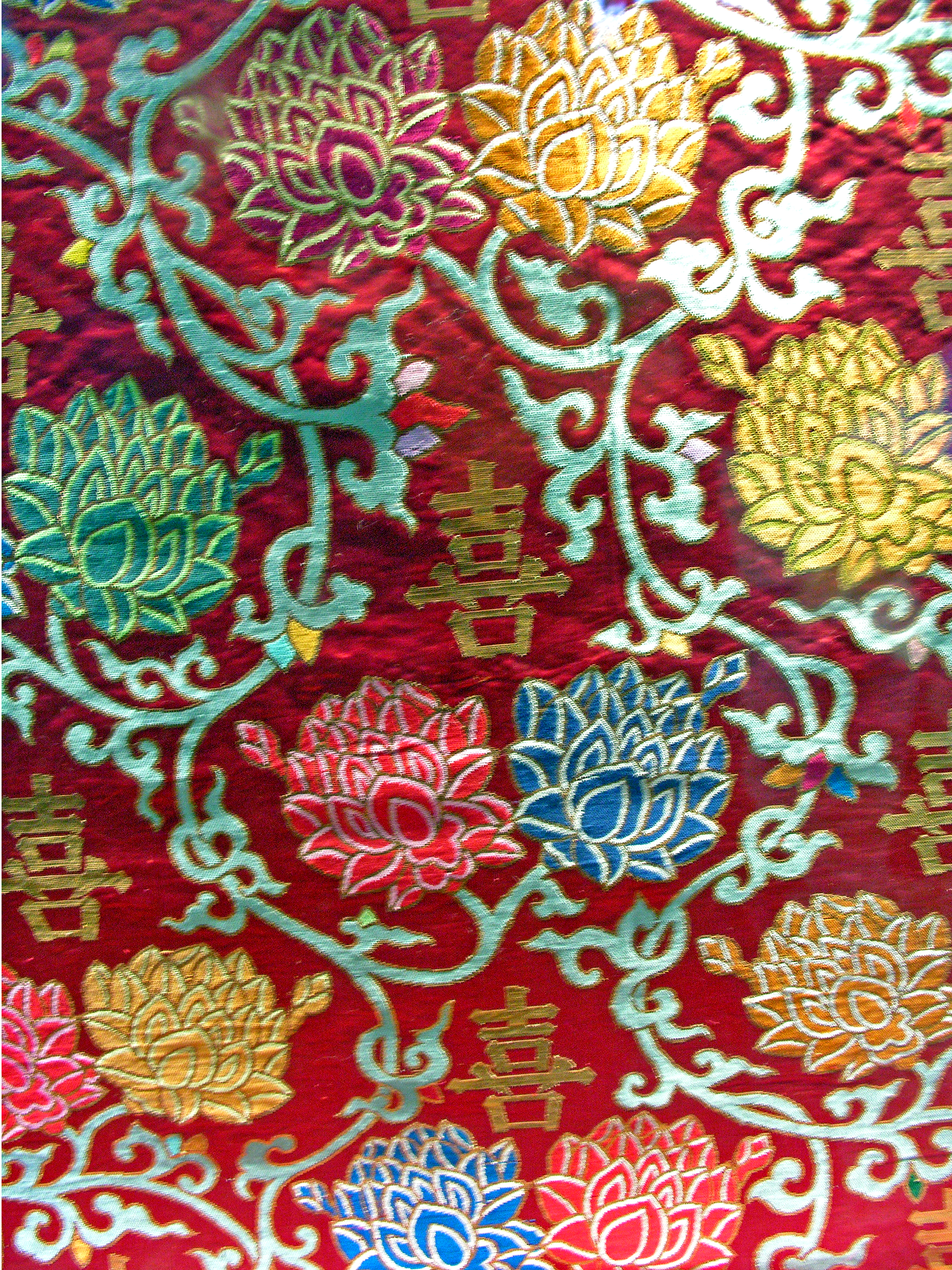 Items found in the tomb, gold coins, wooden figurines, and cloth.